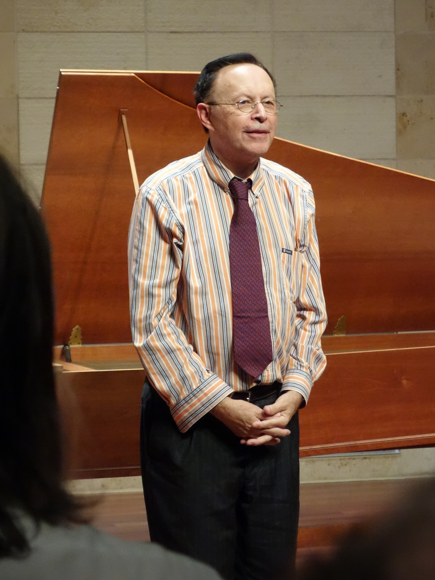 Anthony Newman after performing at San Francisco Conservatory